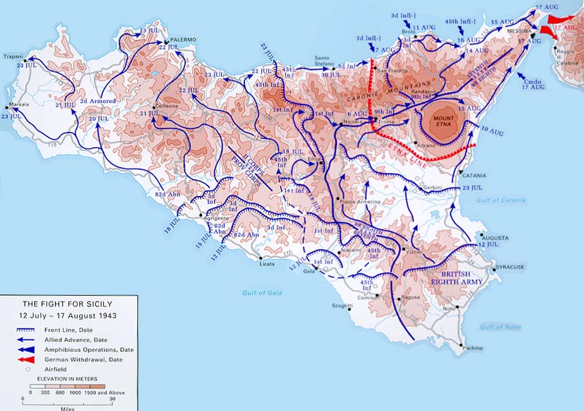 The Fight for Sicily 12 July-17 August 1943